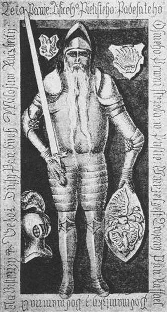 Tomb of Rafael Podmaniczky 1558 AD.